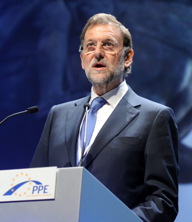 Mariano Rajoy, at the 2011 Congress of the European People's Party in Marseille.